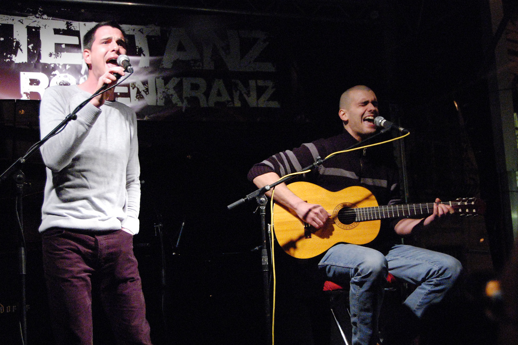 Christoph und Lollo 2010